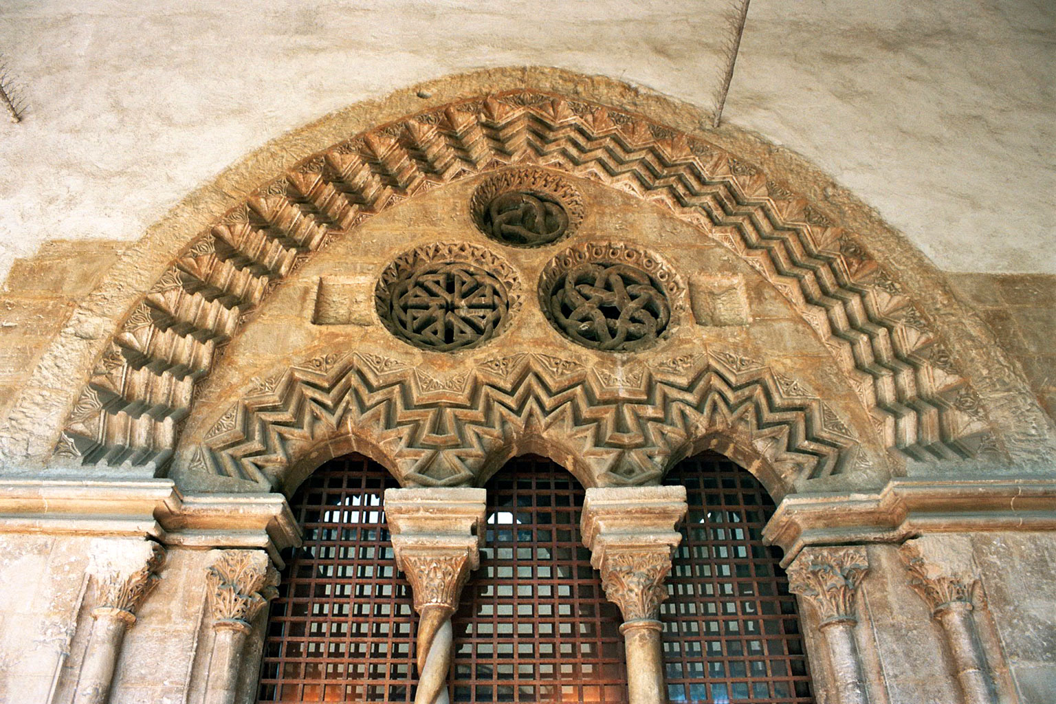 Palazzo Chiaramonte, Palermo Window in the upper floor of the courtyard